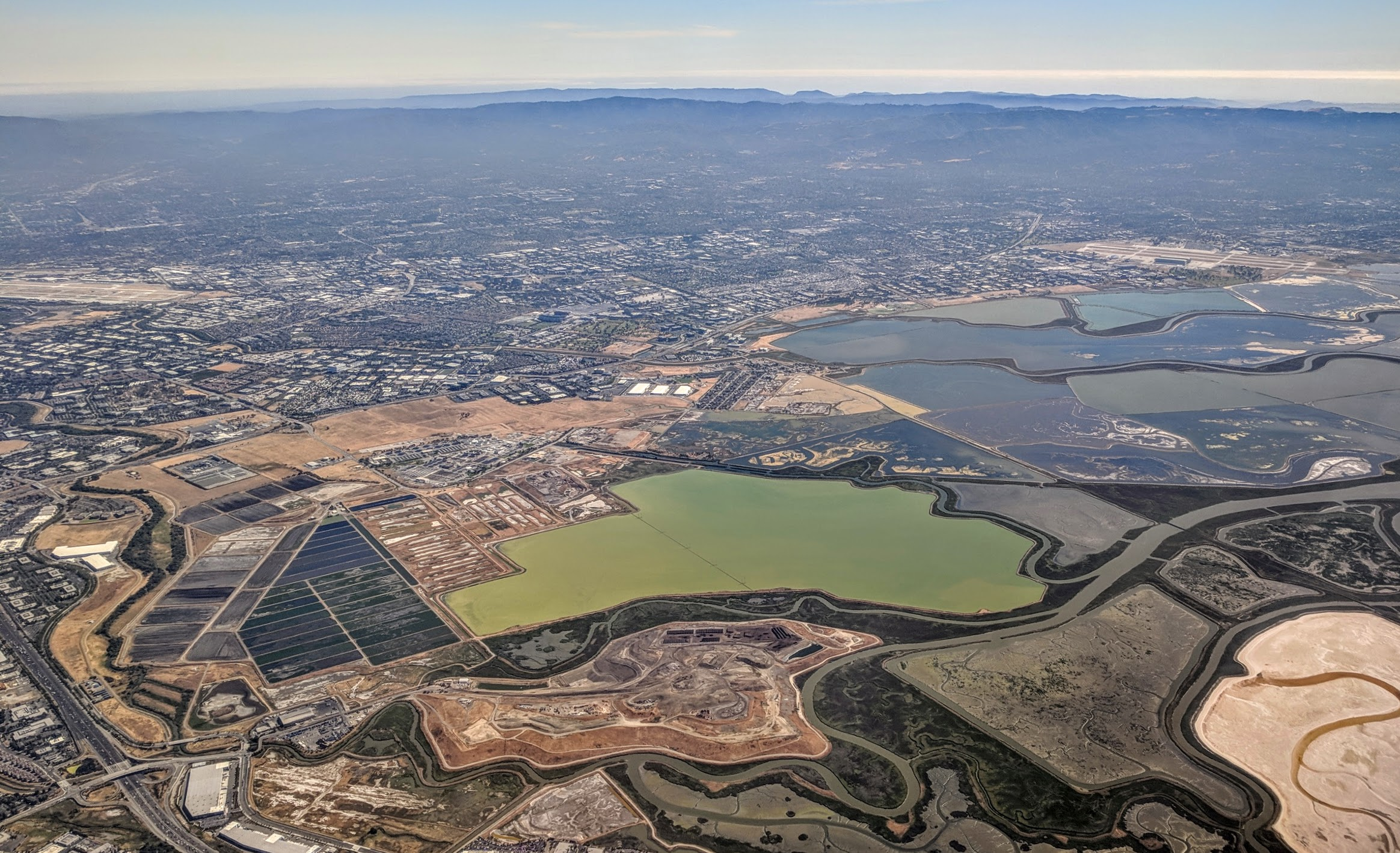 Aerial view of salts ponds (and former salt ponds) near Alviso, San Jose, California